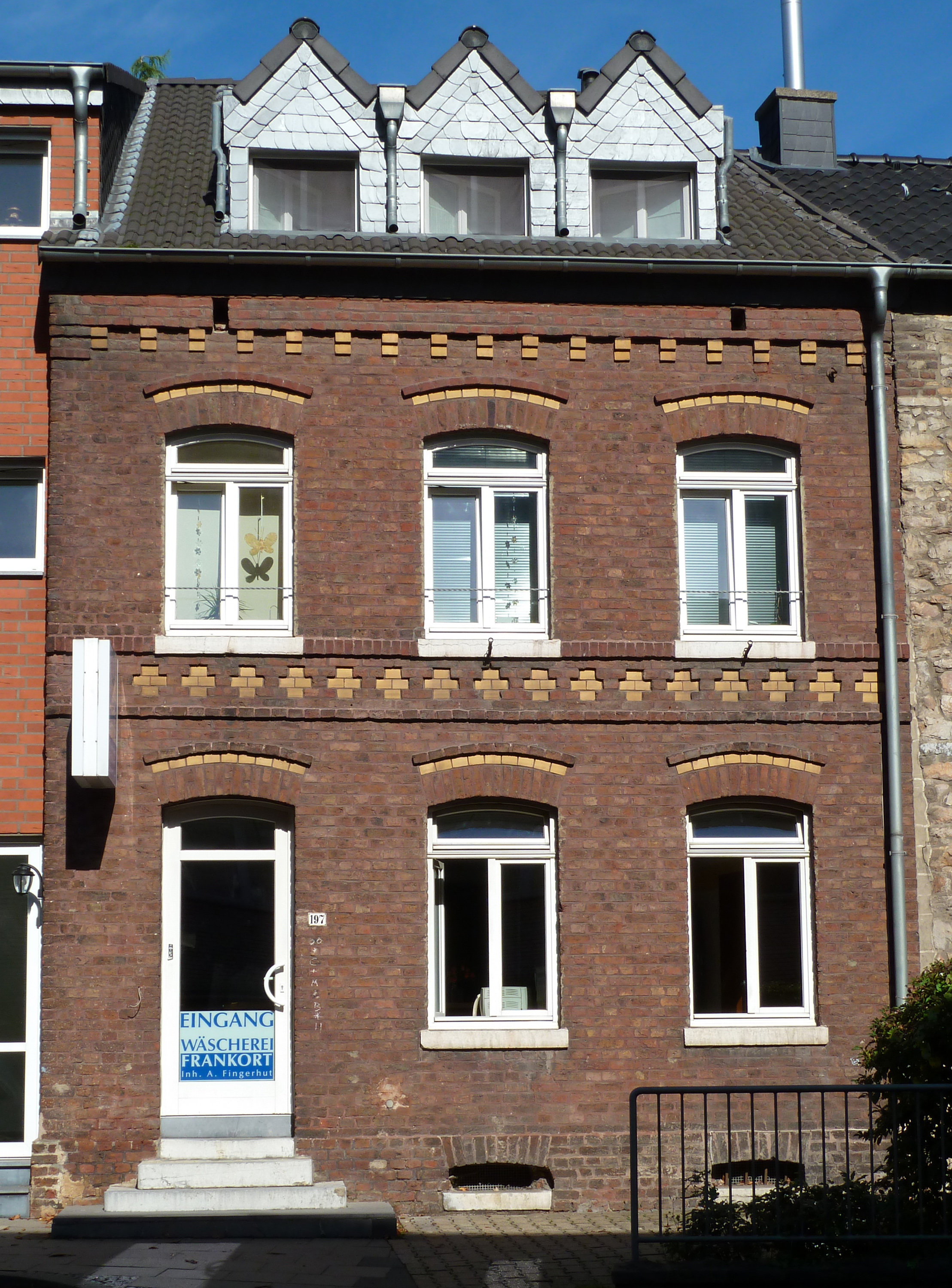 Residential house under protection of historic buildings and monuments in Von-Coels-Straße 197, Aachen, Germany